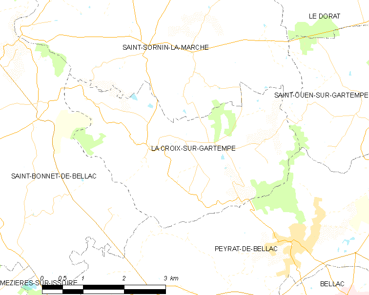 Map of French municipality La Croix-sur-Gartempe